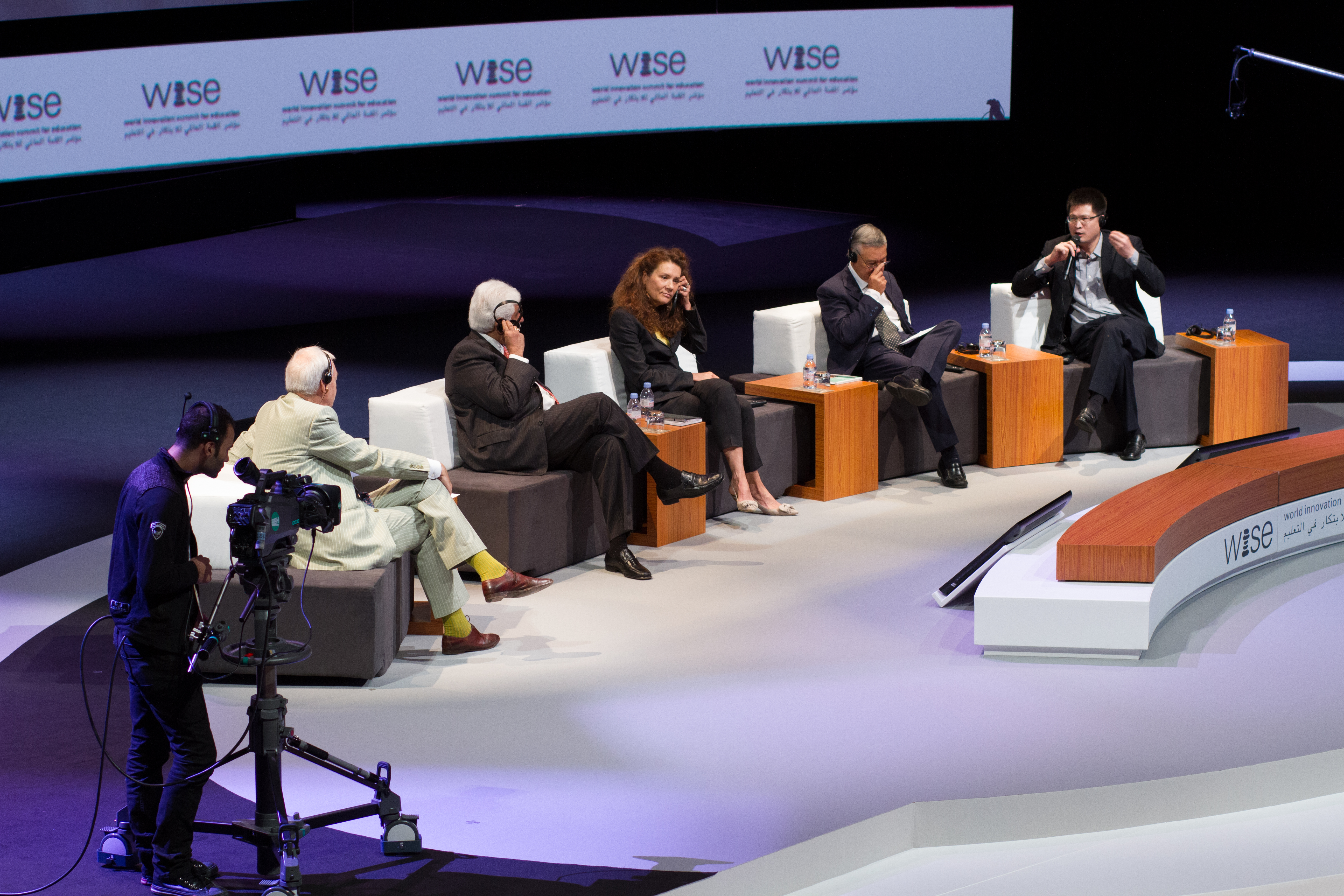 World Innovation Summit for Education (WISE) 2012, Doha, Qatar. Panel participants on day 3 of the conference.